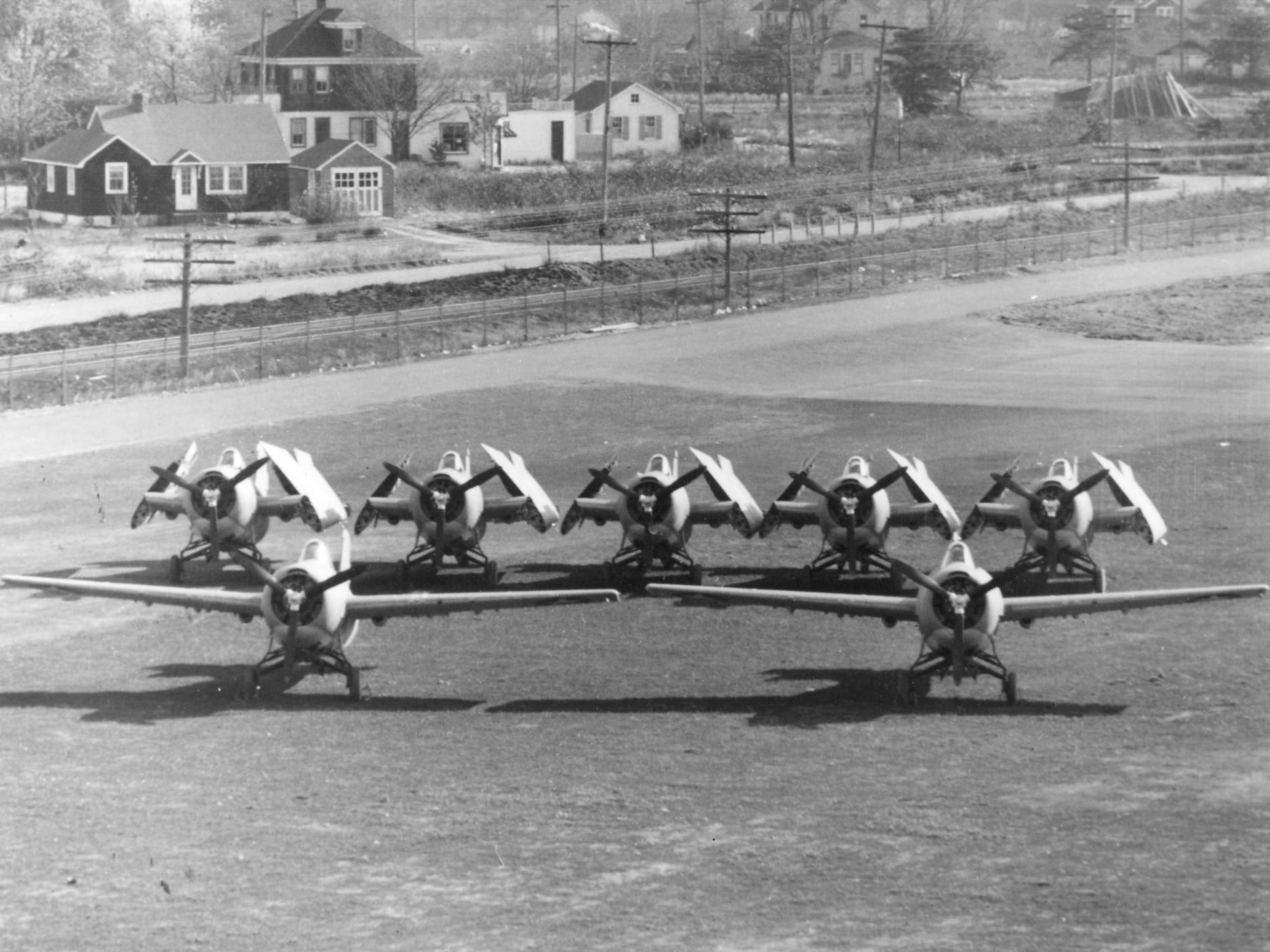 Display of U.S. Navy Grumman F4F-4 Wildcats showing that five with Grumman's "sto-wings" could occupy ther space of two without "sto-wings" (like the F4F-3), thereby increasing the stowage of aircraft and the striking force of carriers by about 150 percent. Grumman supplied all the U.S. Navy's carrier-based fighters from 1935 until 1943, and throughout the war two out of three Navy fighters and 98 out of 100 of the fleet's torpedo bombers were either Grumman-made or Grumman-designed.